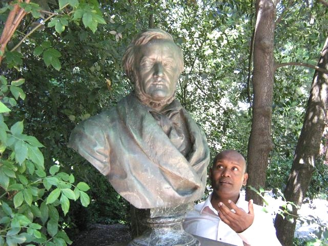 Yogeswaran Manickam in front of Richard Wagner bust at Museum Rietberg in Zuerich